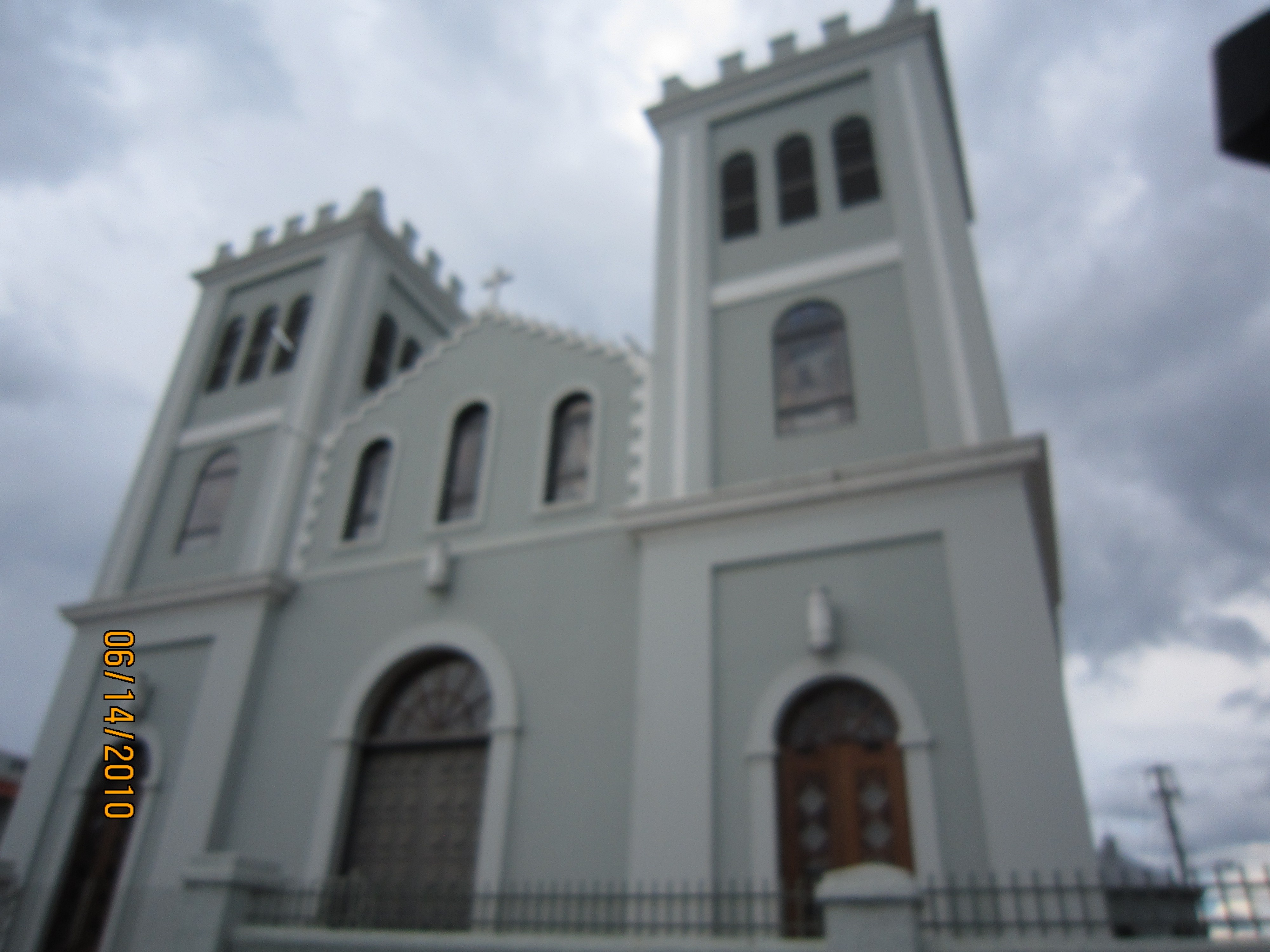 St. Anthony of Padua Catholic Church in Isabela, Puerto Rico. It is not a cathedral.